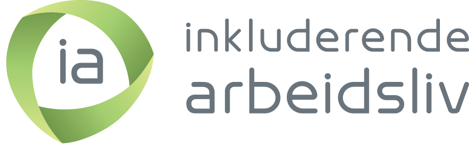 Logo for the Norwegian Agreement on a More Inclusive Working Life (IA agreement). Other versions of the logo can be downloaded at